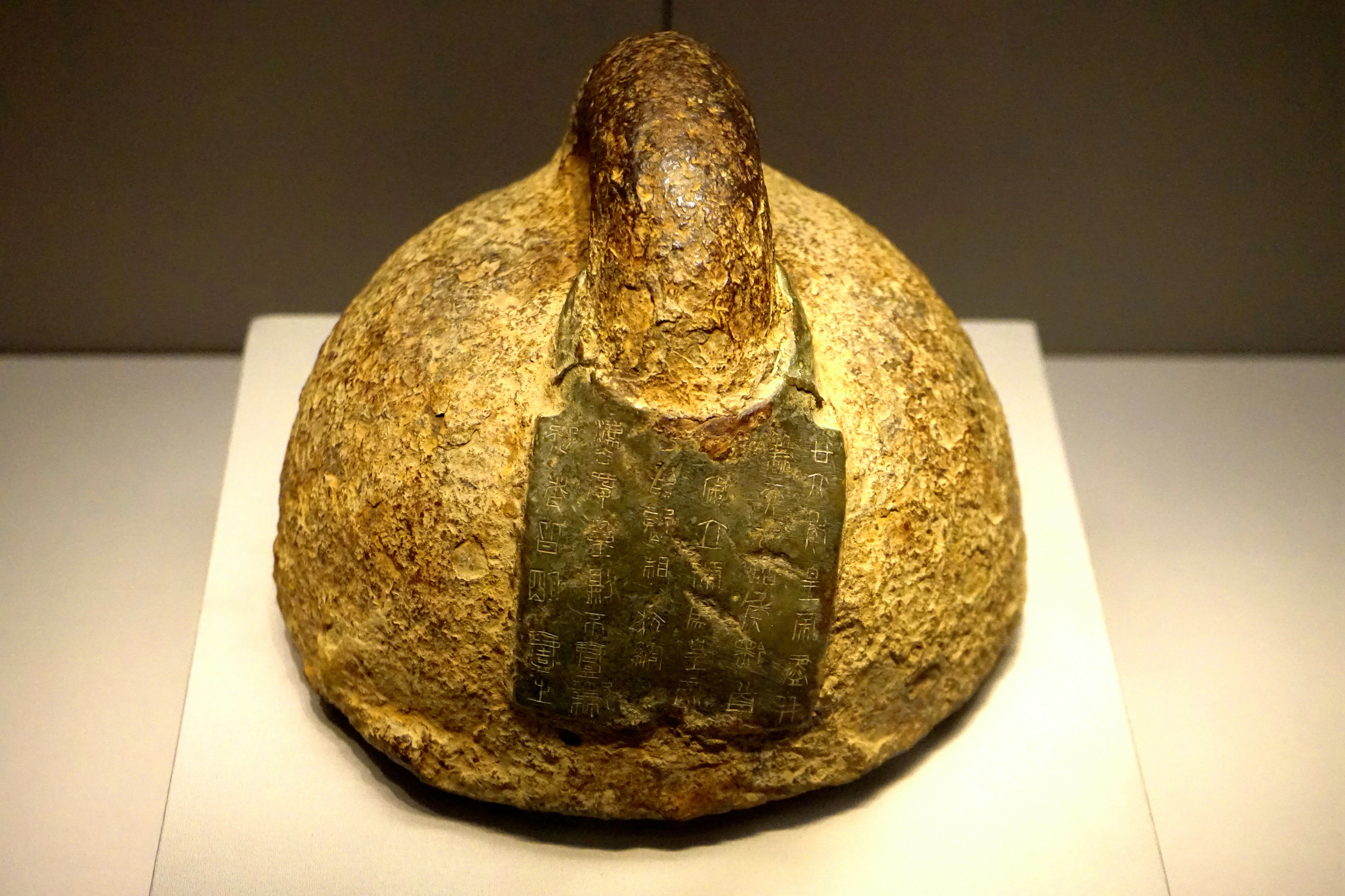 Iron Weight with Bronze Inscribed Board. Qin Dynasty. Unearthed from Qincheng District, Tianshui, Gansu Province in 1983.